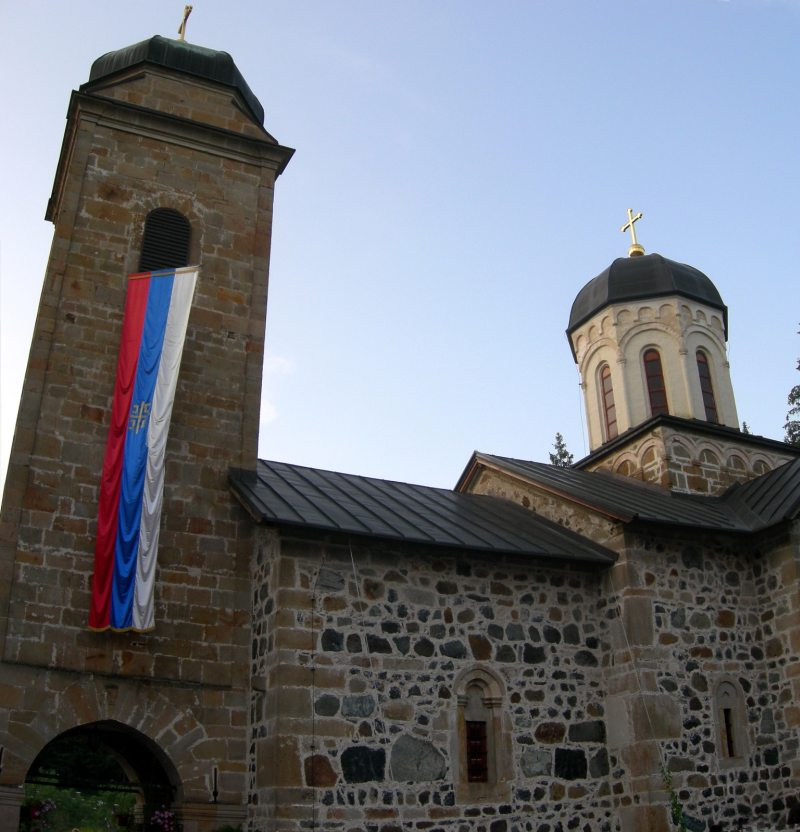 Monastery Ozren